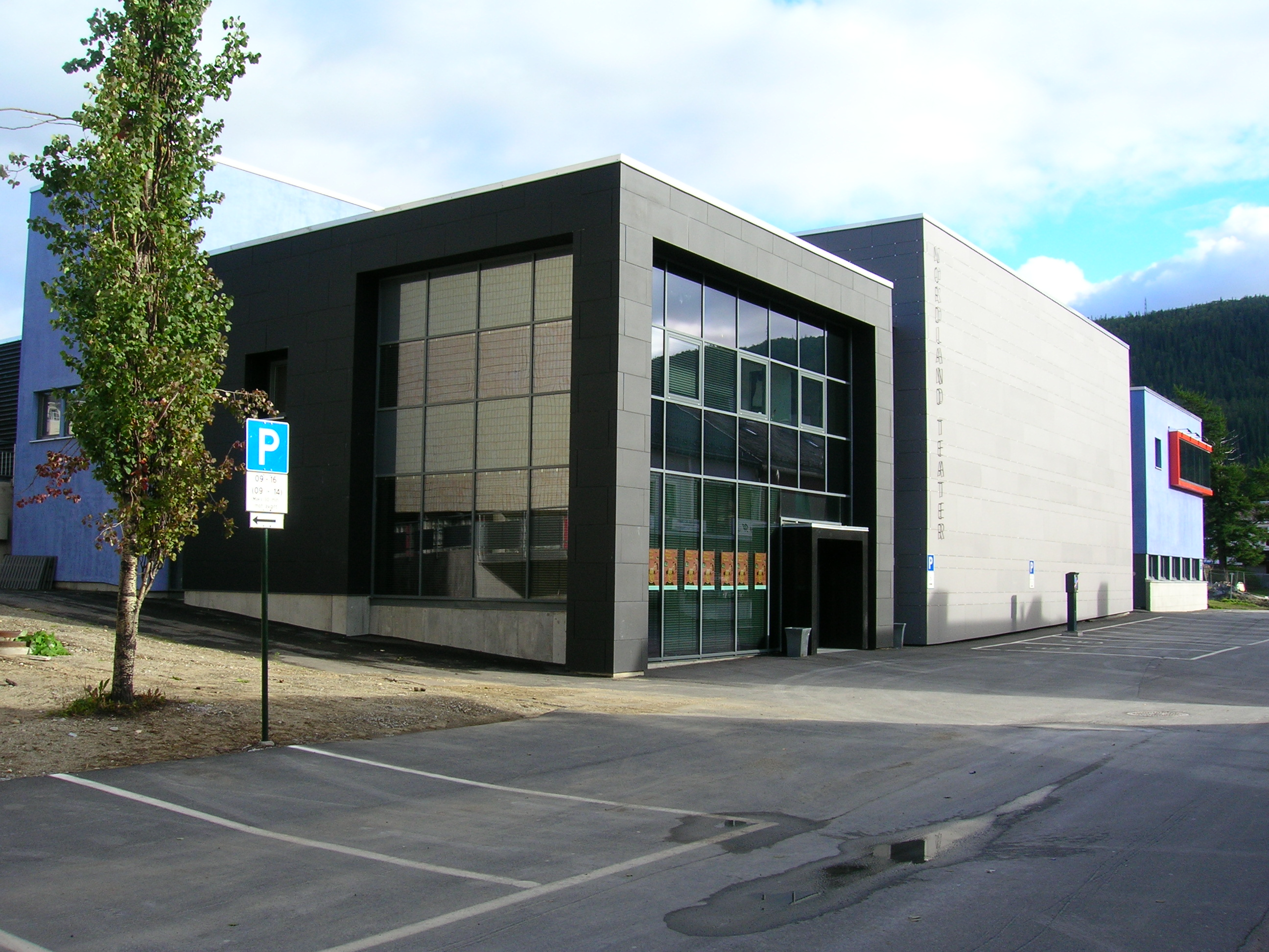 Nordland teater, Mo i Rana, Rana municipality, county of Nordland, Norway, Photo 7 September, 2007 with a Nikon Coolpix 5600 5,1 Megapixel camera.